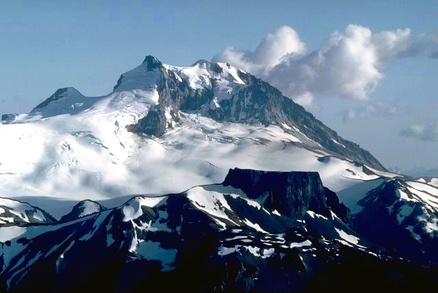 Mount Garibaldi rising over The Table.